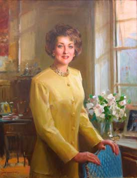 Elizabeth Hanford Dole source 14:38, 15 December 2004 JTilly 275x355 (11829 bytes) (Elizabeth Dole)